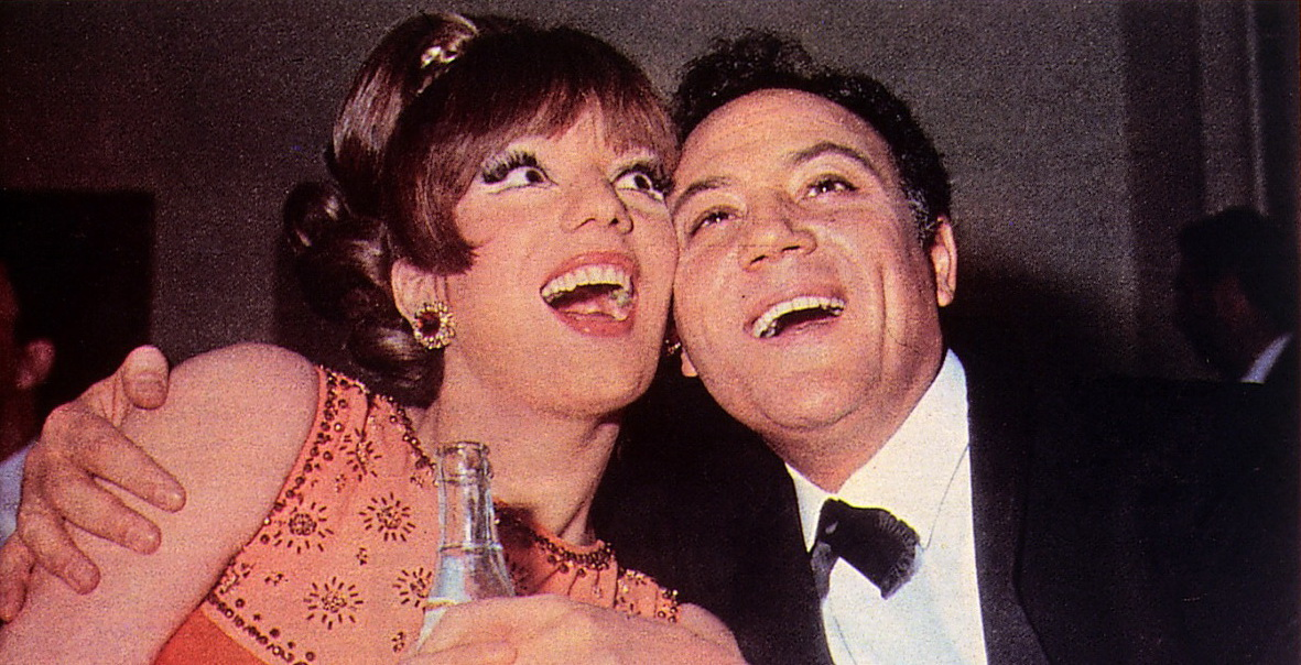 Italian singers Claudio Villa and Iva Zanicchi awarded at the Sanremo Music Festival